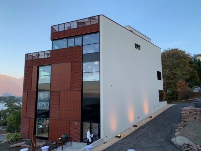 The new, state of the art, Apicius Building at the Culinary Arts Academy, Switzerland